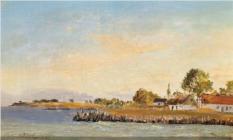 Rungsted Havn in Rungsted North of Copenhagen, Denmark